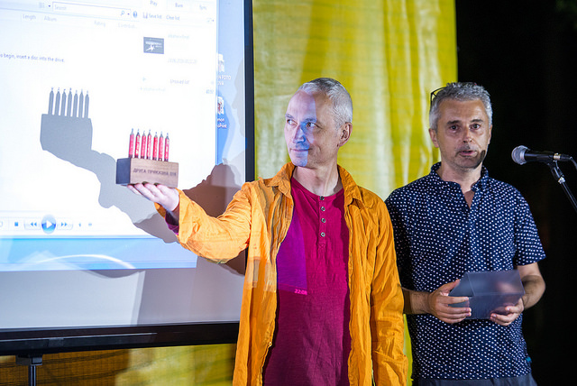 Dragan Protić and Nikola Gelevski at the "Another Story" festival, on June 29 2016, in Skopje, Republic of Macedonia.